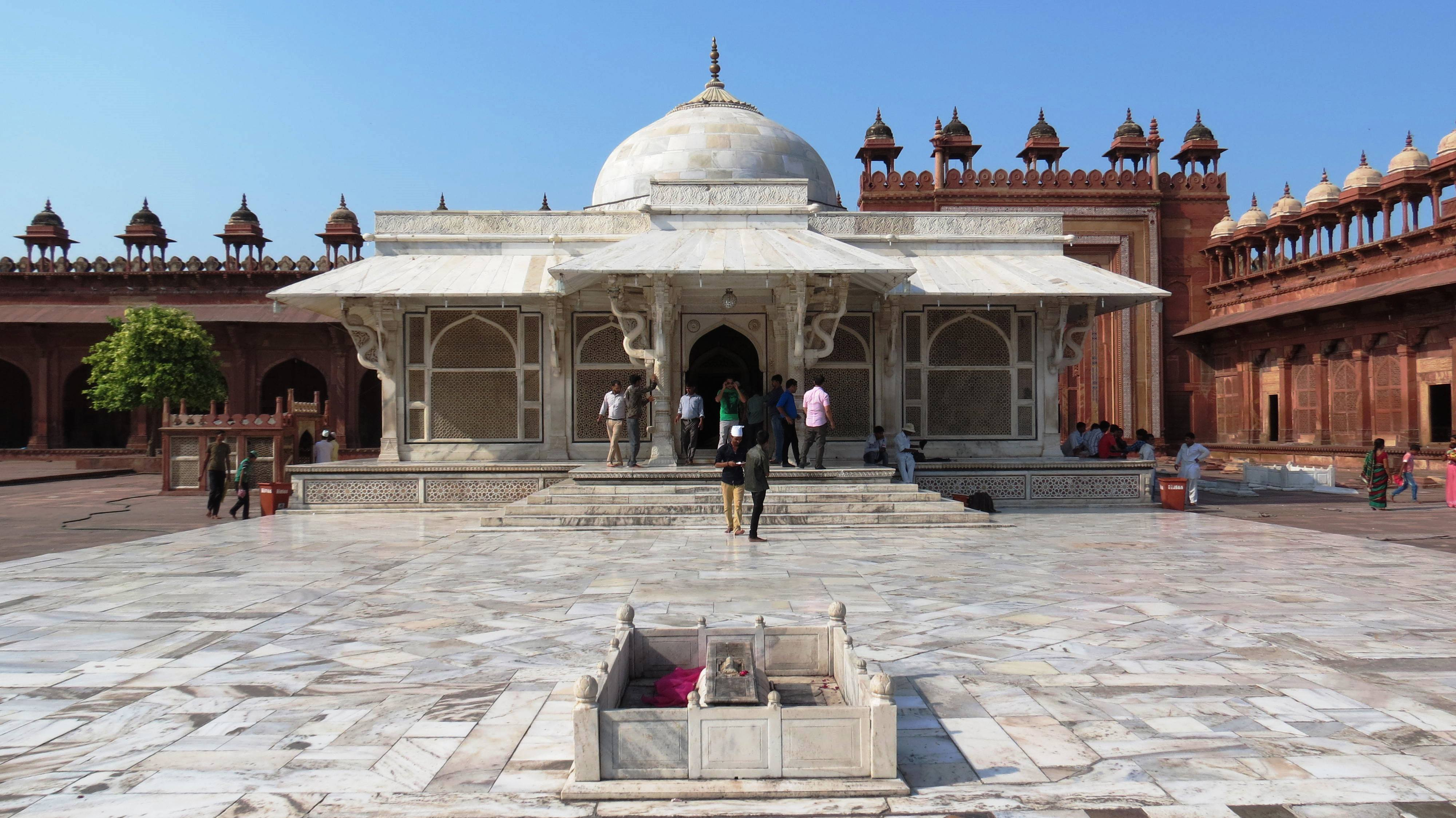 Fatehpur Sikri: Salim Chishti's Tomb